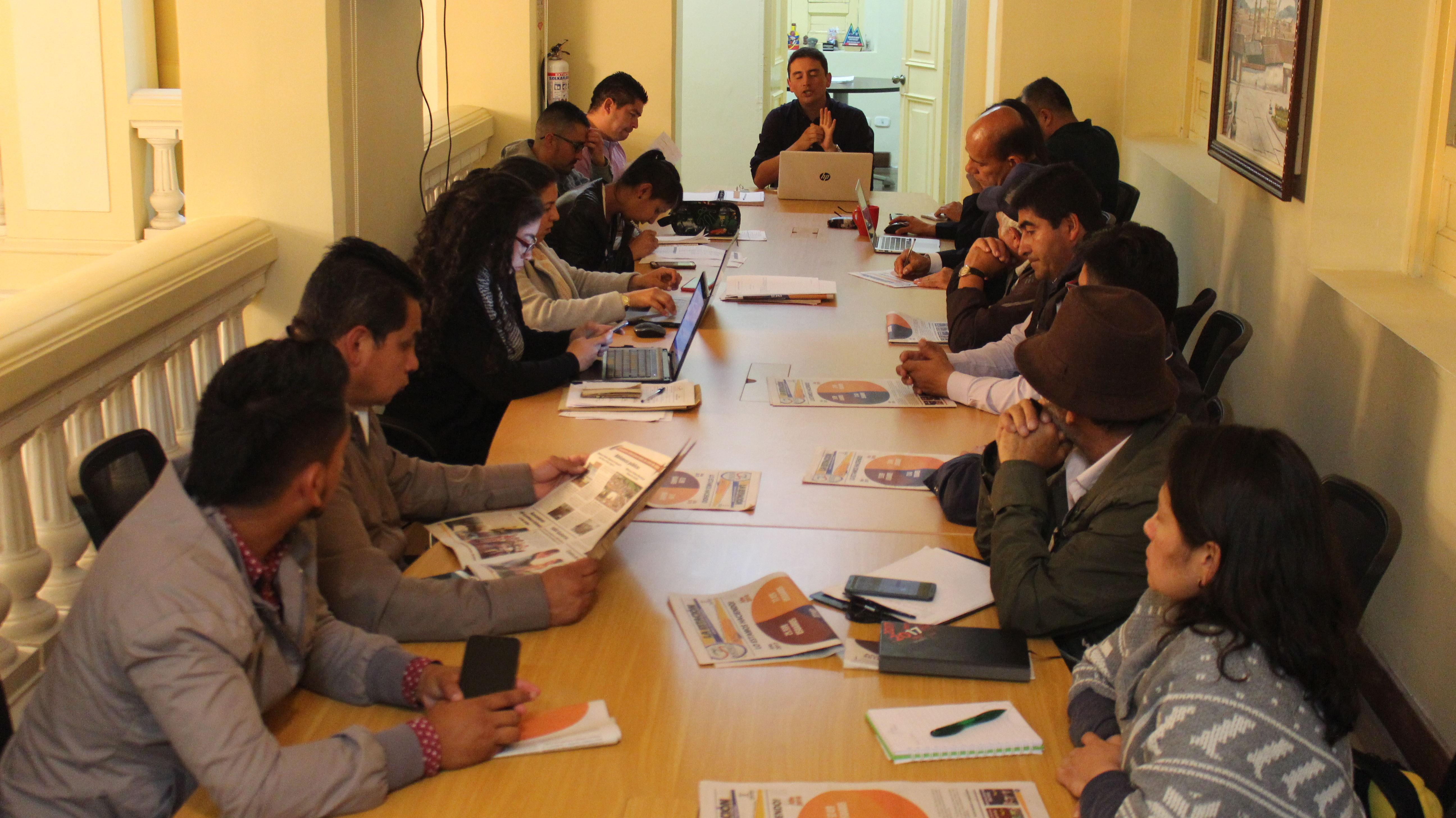 Reunión Presidentes J.A.C